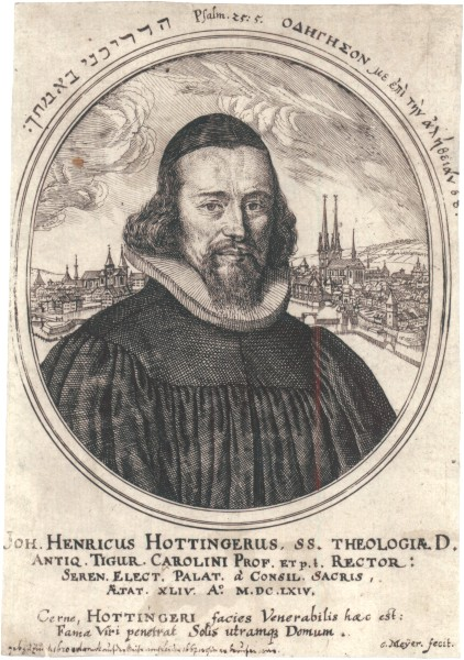 Joh. Henricus Hottingerus, SS. Theologiæ. D. Antiq. Tigur. Carolini Prof. Et p 1, Rector: Seren. Elect. Palat. A Consil Sacris, Ætat XLIV. Ao MDCLXIV. Georg Meyer: Johann Heinrich Hottinger (1620-67), etching, Zurich 1664